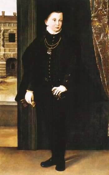 Portrait of Duke of Mantova , Francesco III Gonzaga